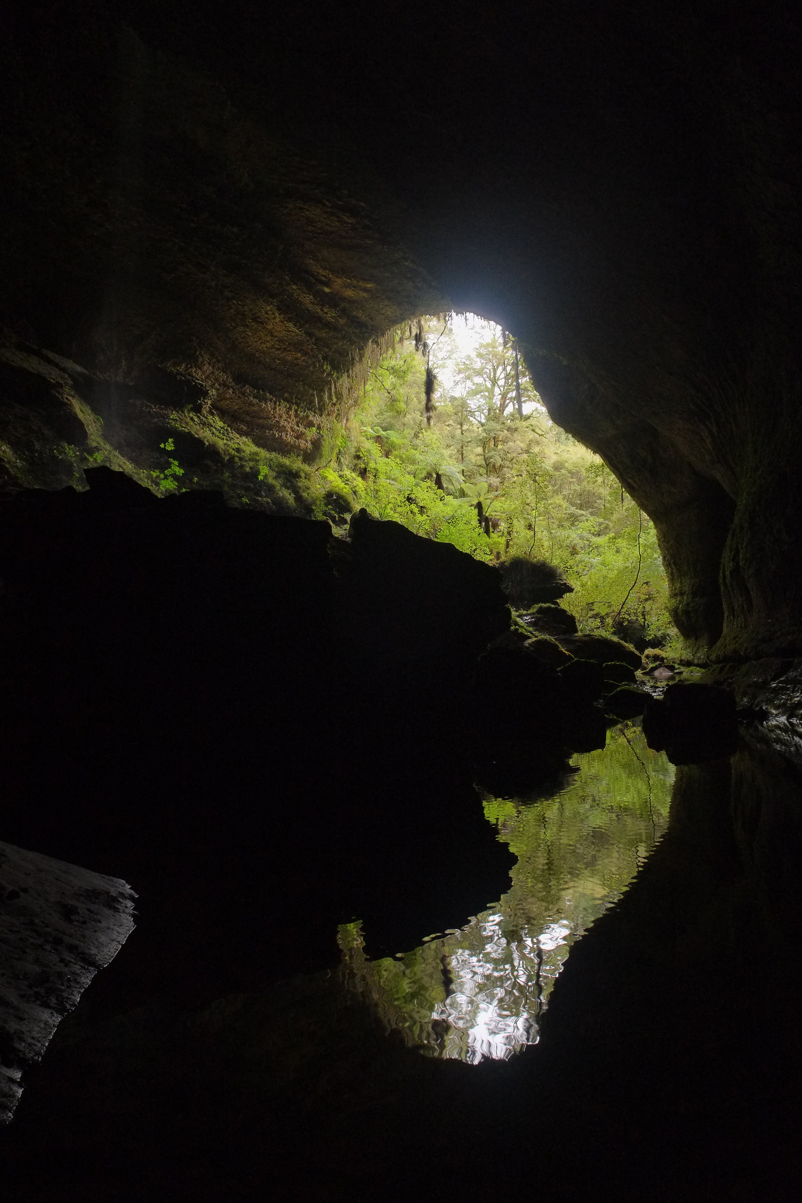 Metro Cave / Te Ananui Cave entrance with reflection in water (Ananui Creek entrance)